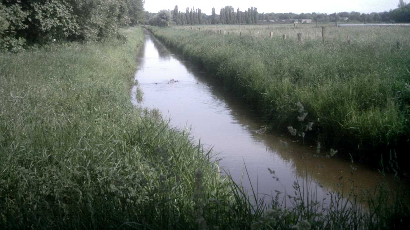 Cloer river near Neersen, Willich, Germany